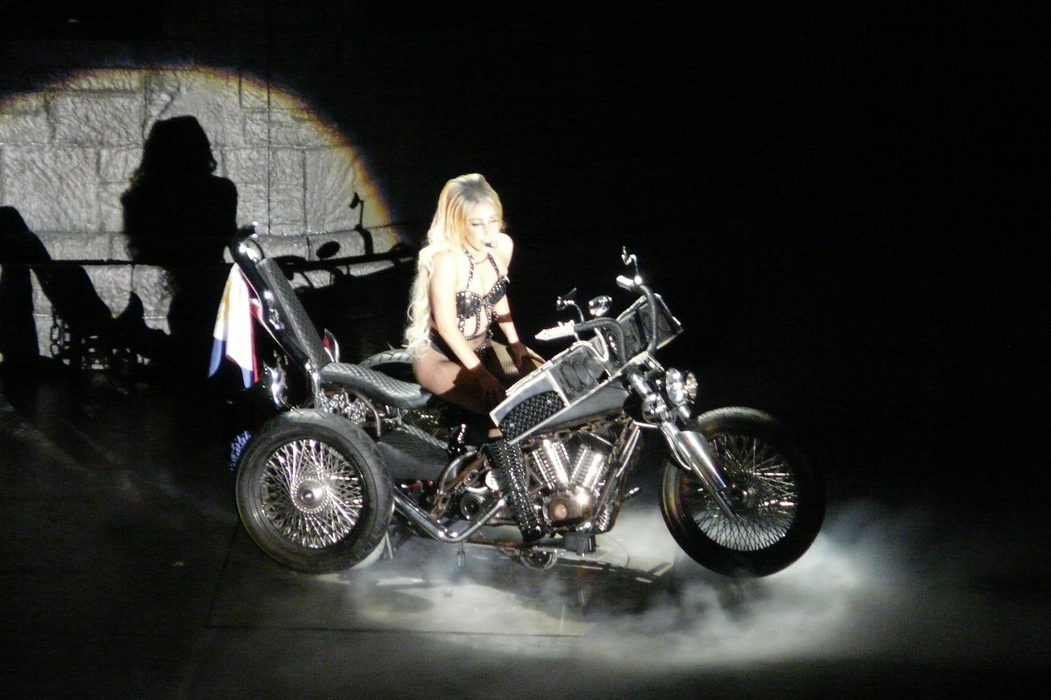 Lady Gaga performing on The Born This Way Ball Tour in Manila.